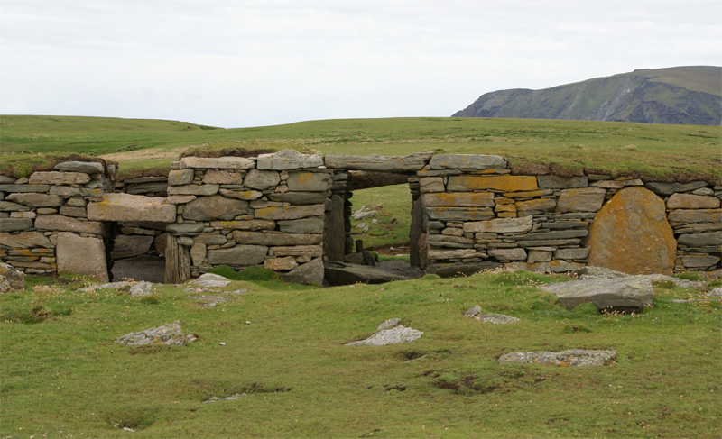 Ness of Burgi, Mainland (Shetland), Scotland - eastern entrances